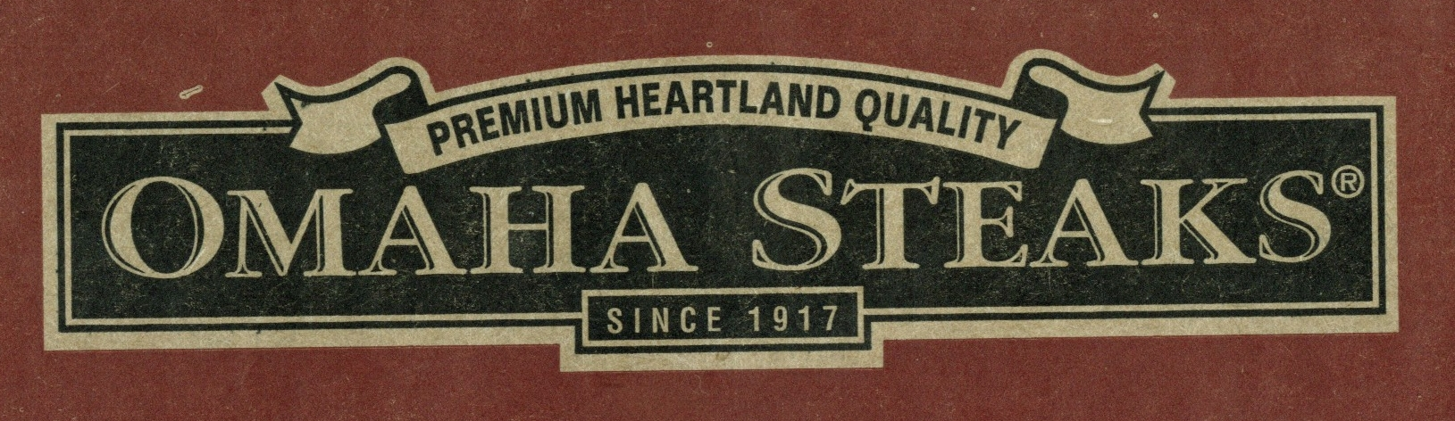 Omaha Steaks logo, typically seen on boxes steaks are shipped in